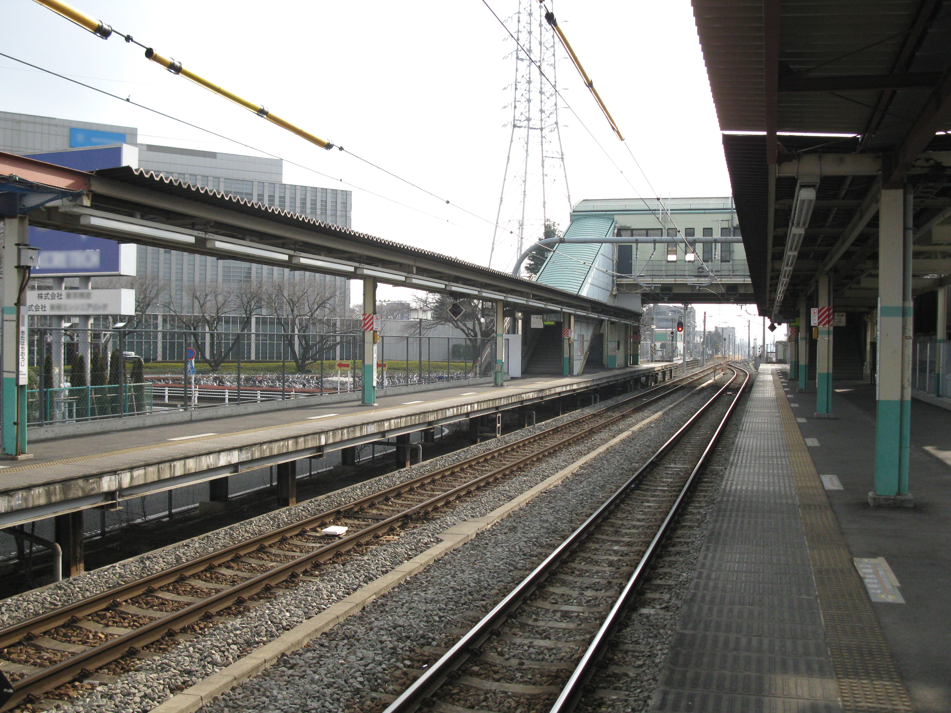 Kita-Hachiōji Station platform (East Japan Railway Hachikō Line)